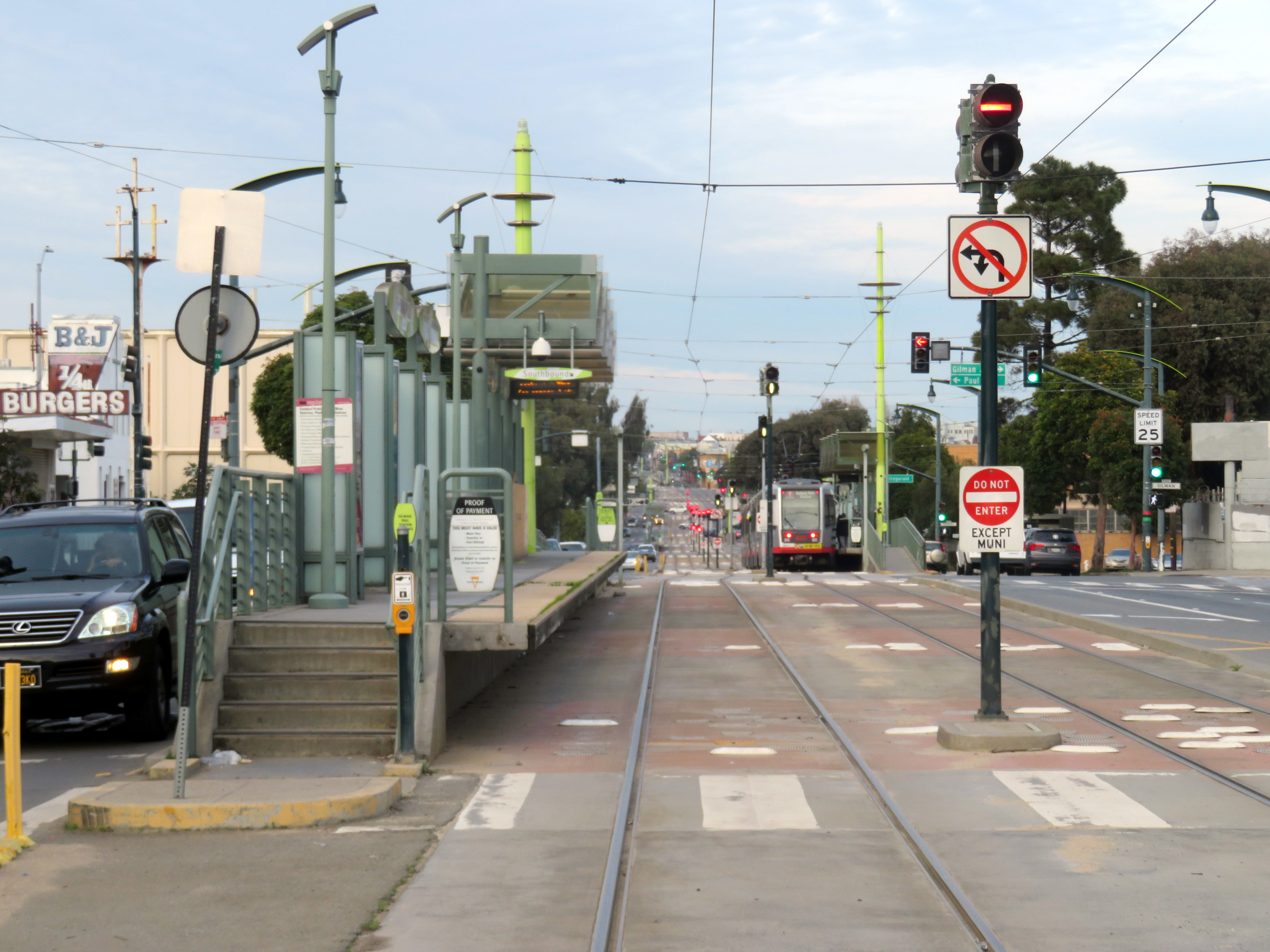 The outbound platform at Gilman/Paul station in January 2020